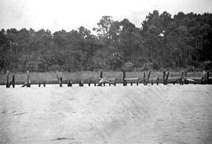 Photo of the remnants of Port Leon Local call number: Rc19327 Personal Author: Williams, Hugh. Title: [Remains of the government docks : Port Leon, Florida] [graphic] Publication info: 196-. Physical descrip: 1 photoprint : b&w ; 8 x 10 in. Series Title: (Reference collection)